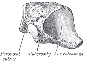 FIG. 275– The left cuboid. Postero-lateral view.